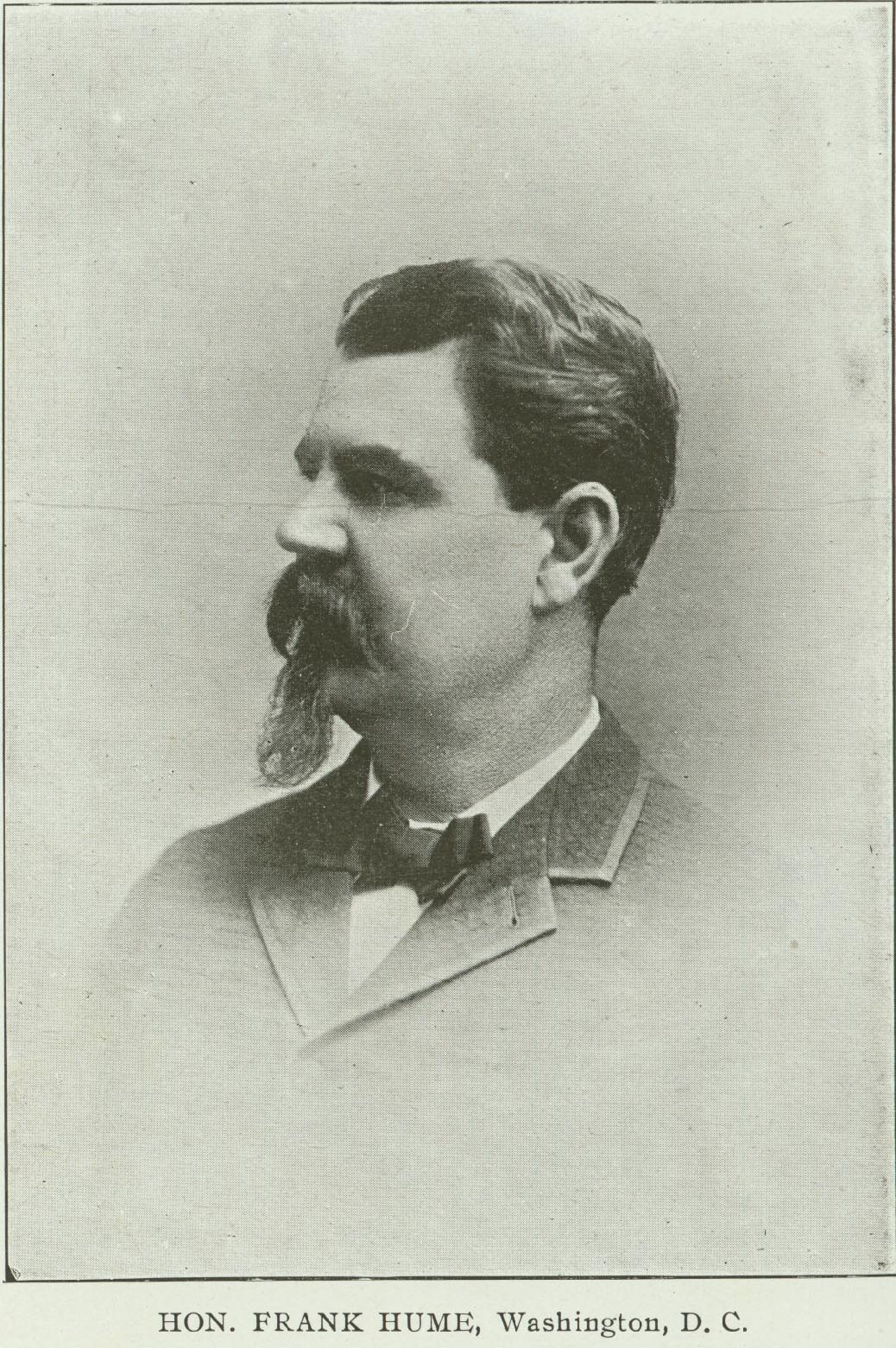 Picture of Frank Hume